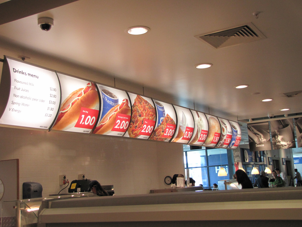 Ikea snack bar at Ikea Perth, Australia